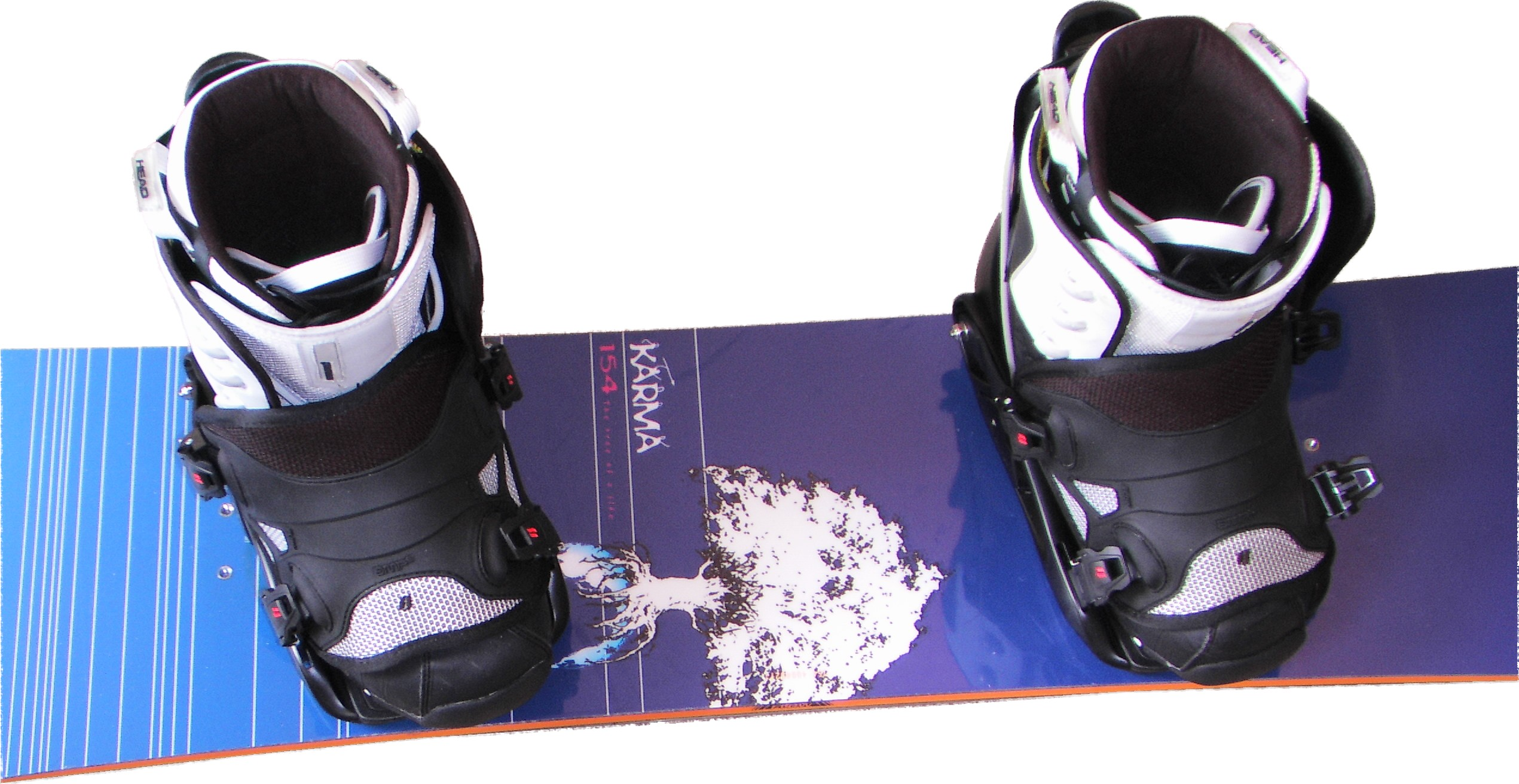 Snowboard mit Bindungswinkel 15°/21° (Regular - Mongofoot)